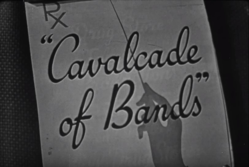 Card from Show